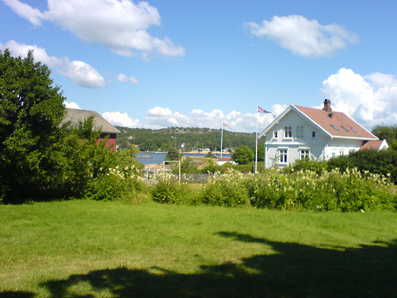 Description: Gravningsund, Søndre Sandøy, Hvaler, Norway Author: Alexander Haneng Year: 2005